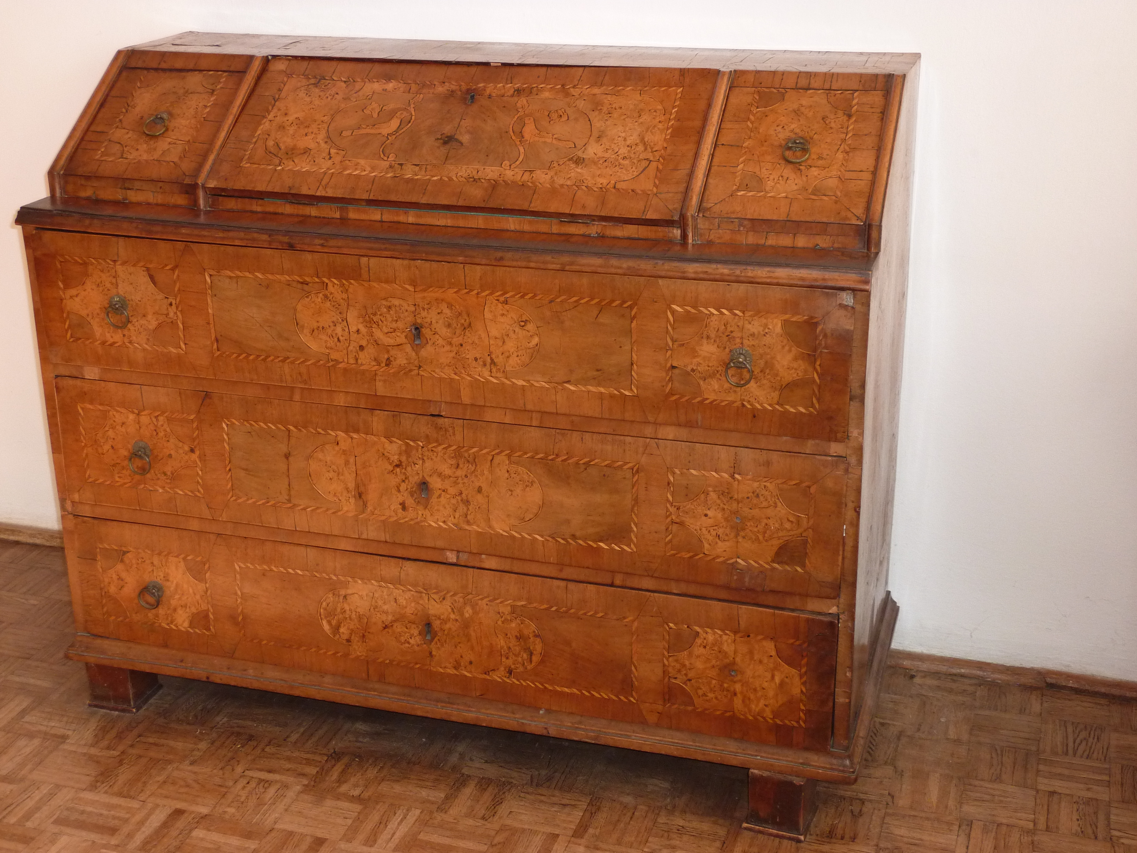 Escritoire